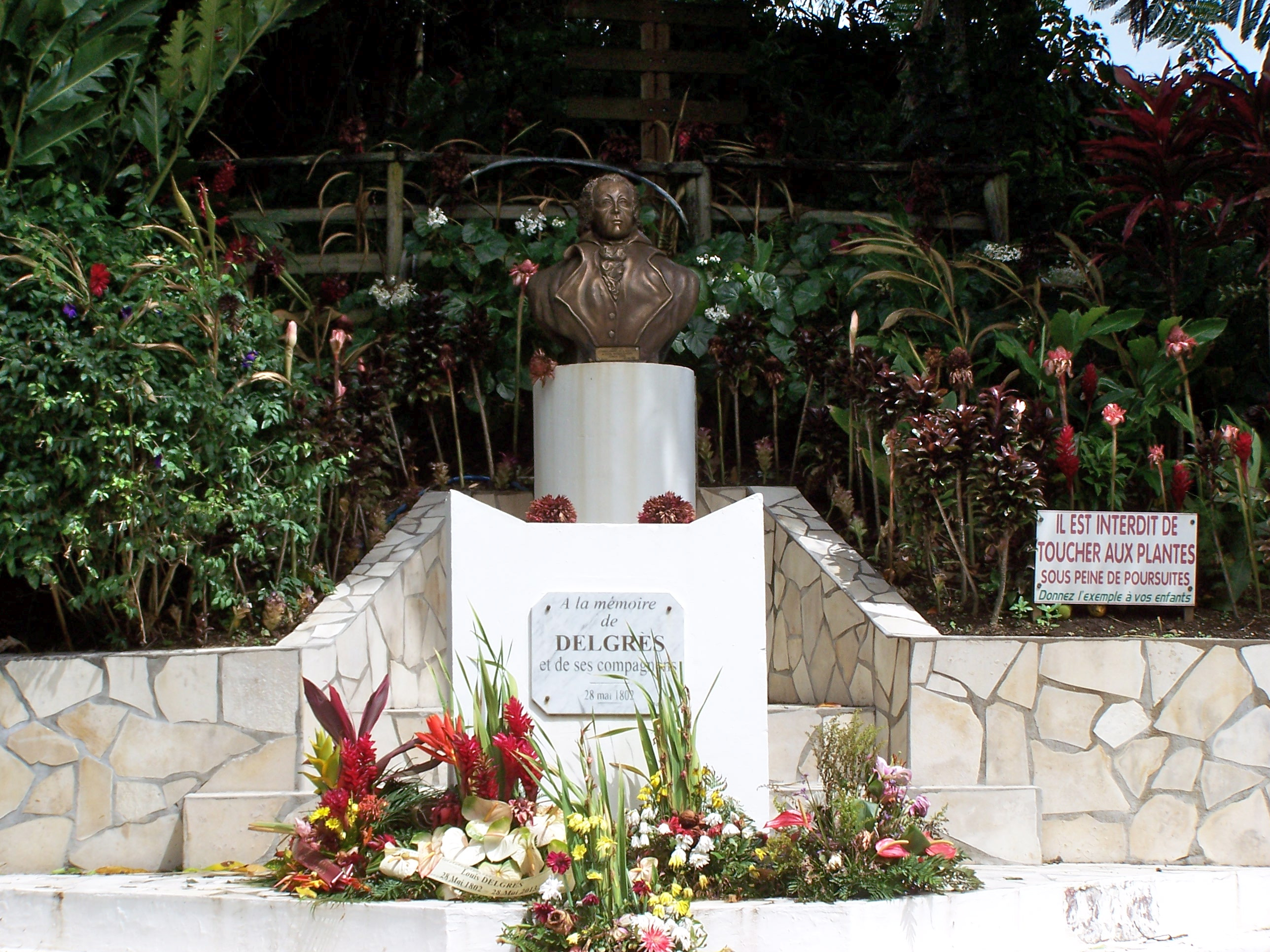 Monument à Louis Delgrès sur le site de sa mort à Matouba, commune de Saint-Claude, Guadeloupe